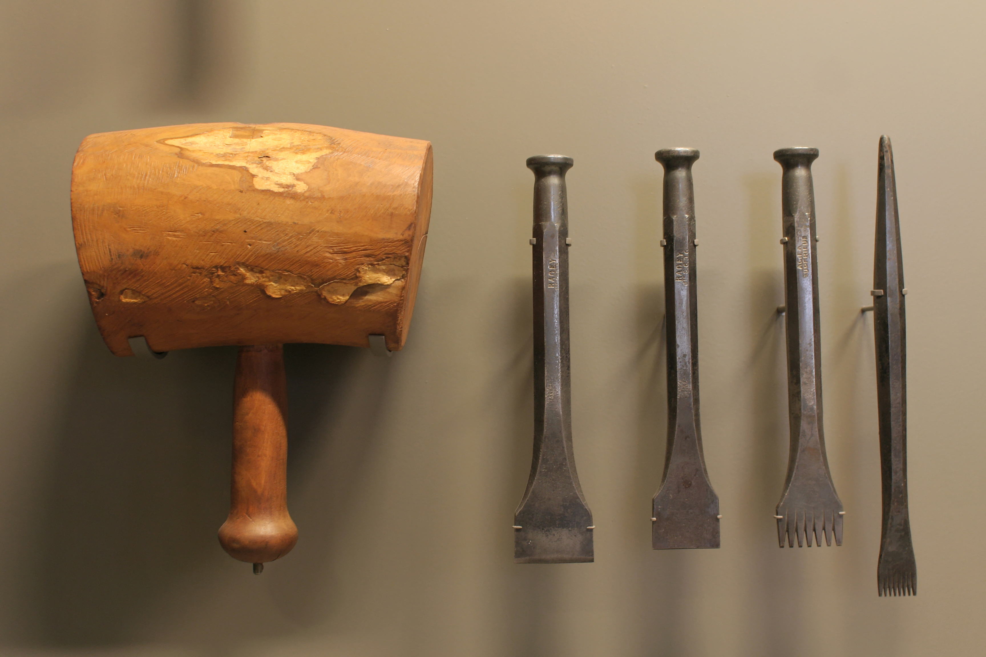 Stone-cutter's tools: stone-cutter's mallet, flat chisel with mallet, flat chisel with mallet, stone-cutter's chipping chisel, stone-cutter's flat chipping chisel.